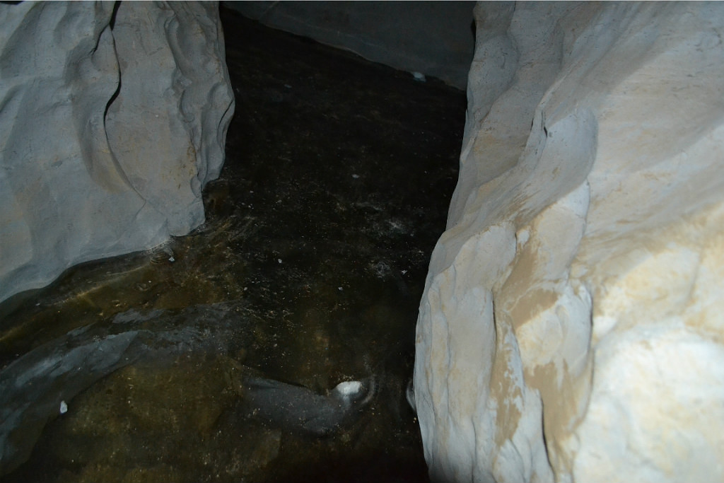 Russia. Middle Urals. Cave "Shemakha-1" and an underground river.